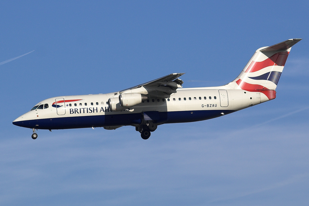 BA CityFlyer Avro RJ100 G-BZAU